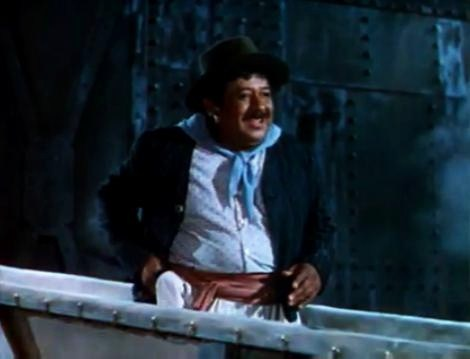 Chris-Pin Martin in Down Argentine Way - trailer (cropped screenshot)